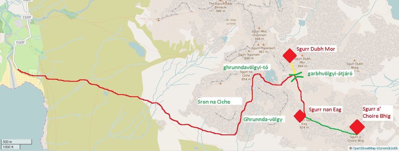 Trails leading to the summits of Sgurr nan Eag and Sgurr Dubh Mor.